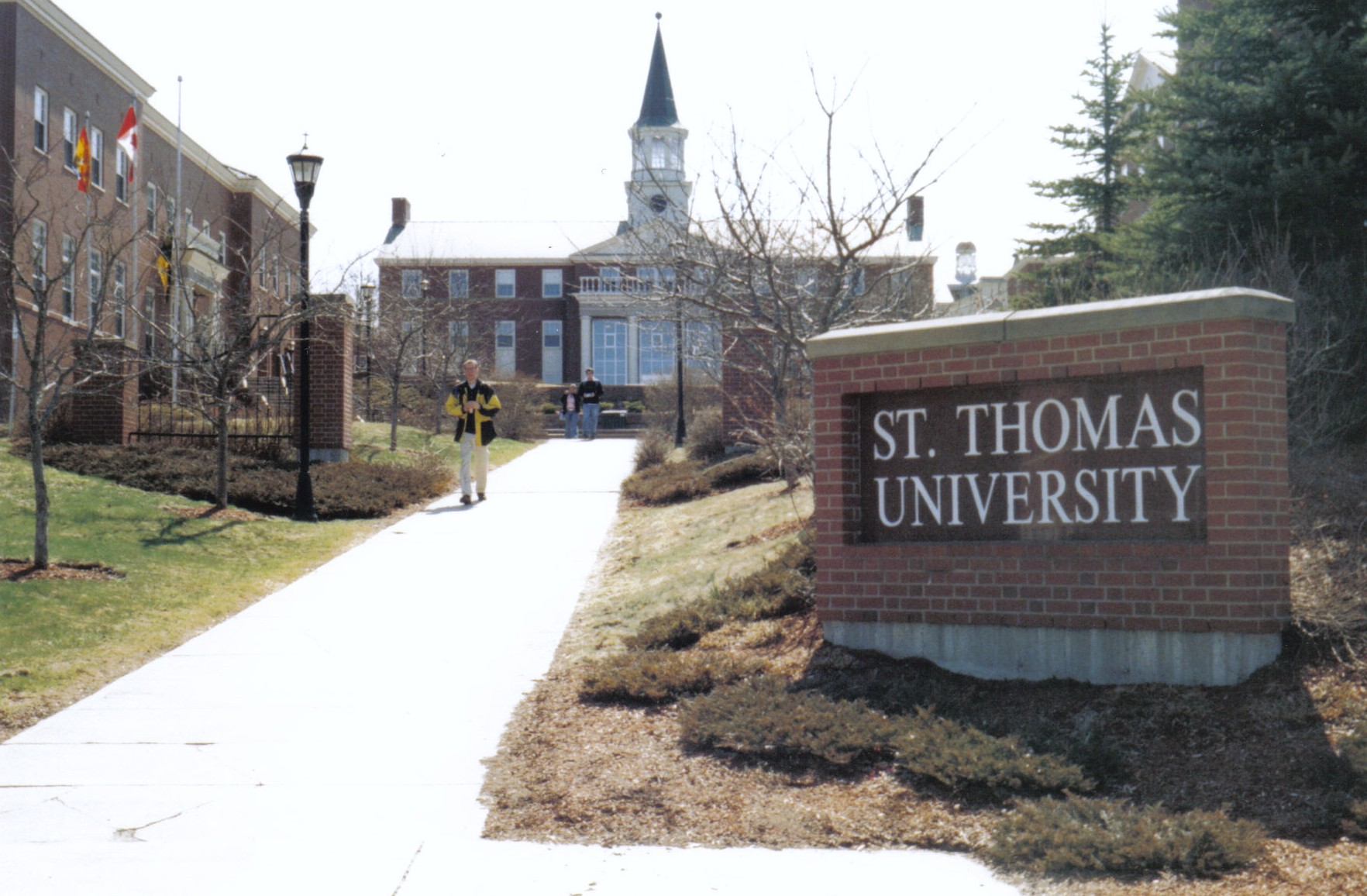 St. Thomas University (Fredericton, NB)